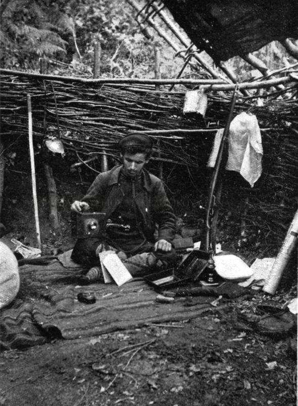 Tashko Arsov from IMARO